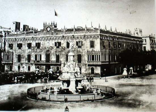 Old Royal Palace at Barcelona, burnt and demolished in 1875, and Pla del Palau. Fountain "Font del Geni Català" at the center of the image.